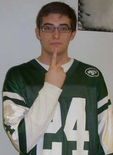 The first posture of the ASL sign RED (en:1@Chin-PalmBack X@NearChin-PalmBack)